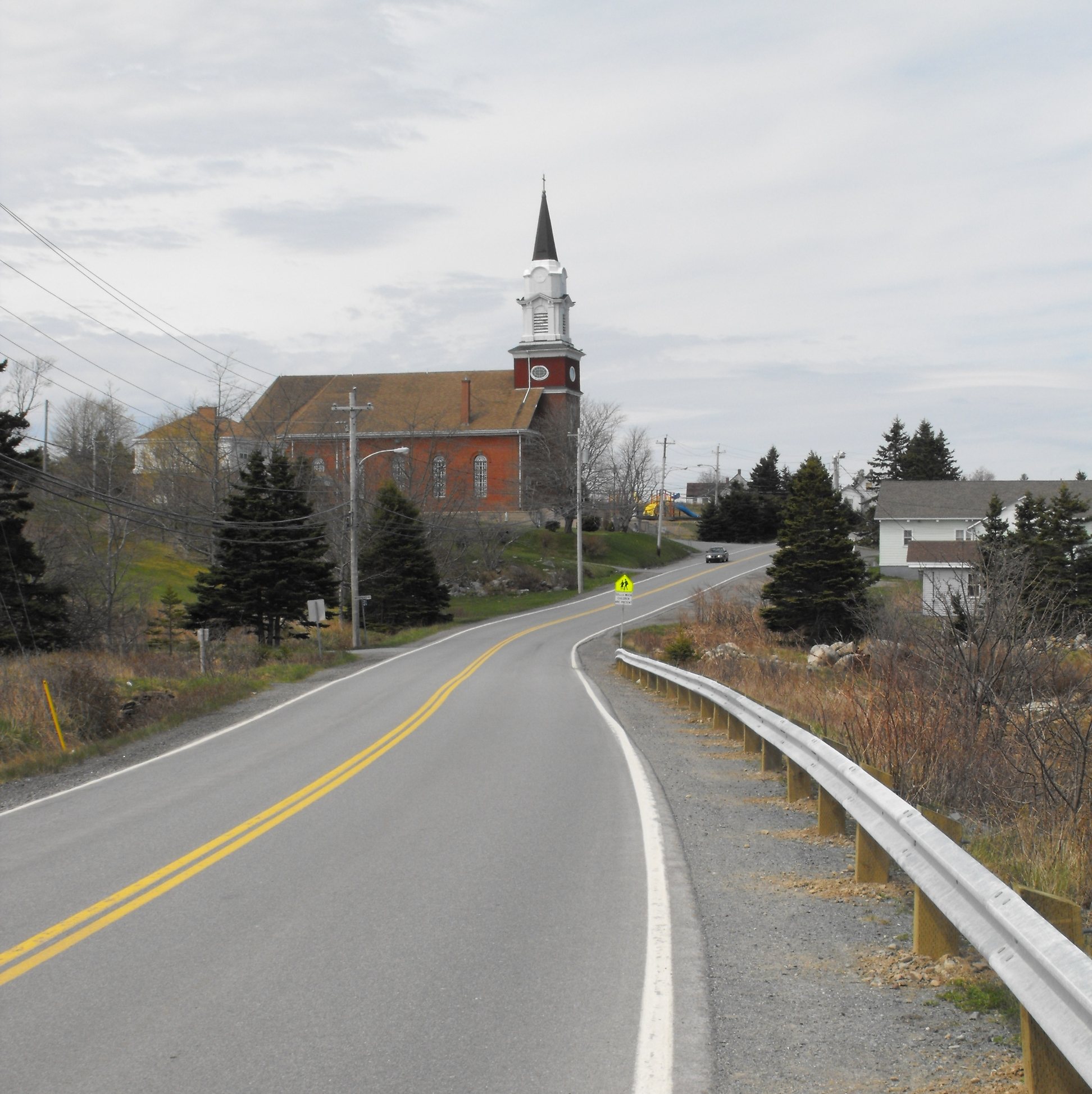 View of the community of West Chezzetcook, Nova Scotia, Canada. Pictured is St. Anslem's Church.